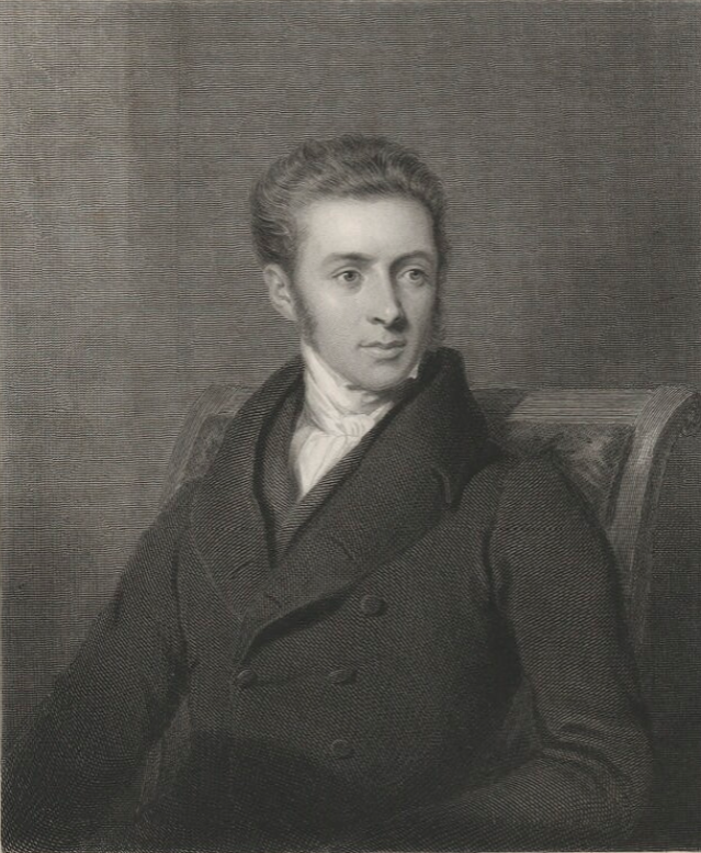 Portrait of John Harris (1802–1856), English Congregational minister.